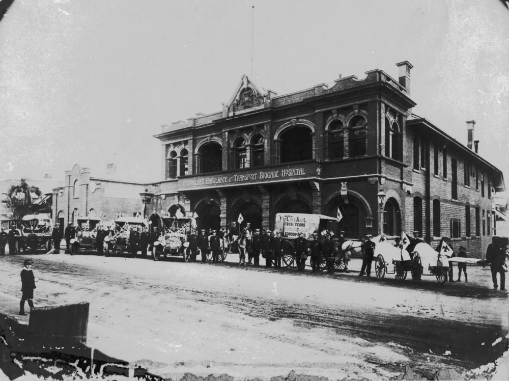 Queensland Ambulance & Transport Brigade Hospital, ca. 1915 Queensland Ambulance & Transport Brigade staff outside the Hospital. Cars are decorated and horsedrawn ambulances are on display.